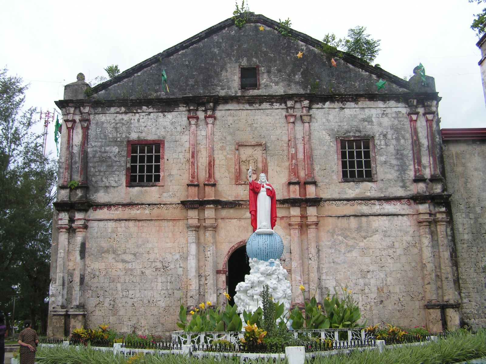 self-taken